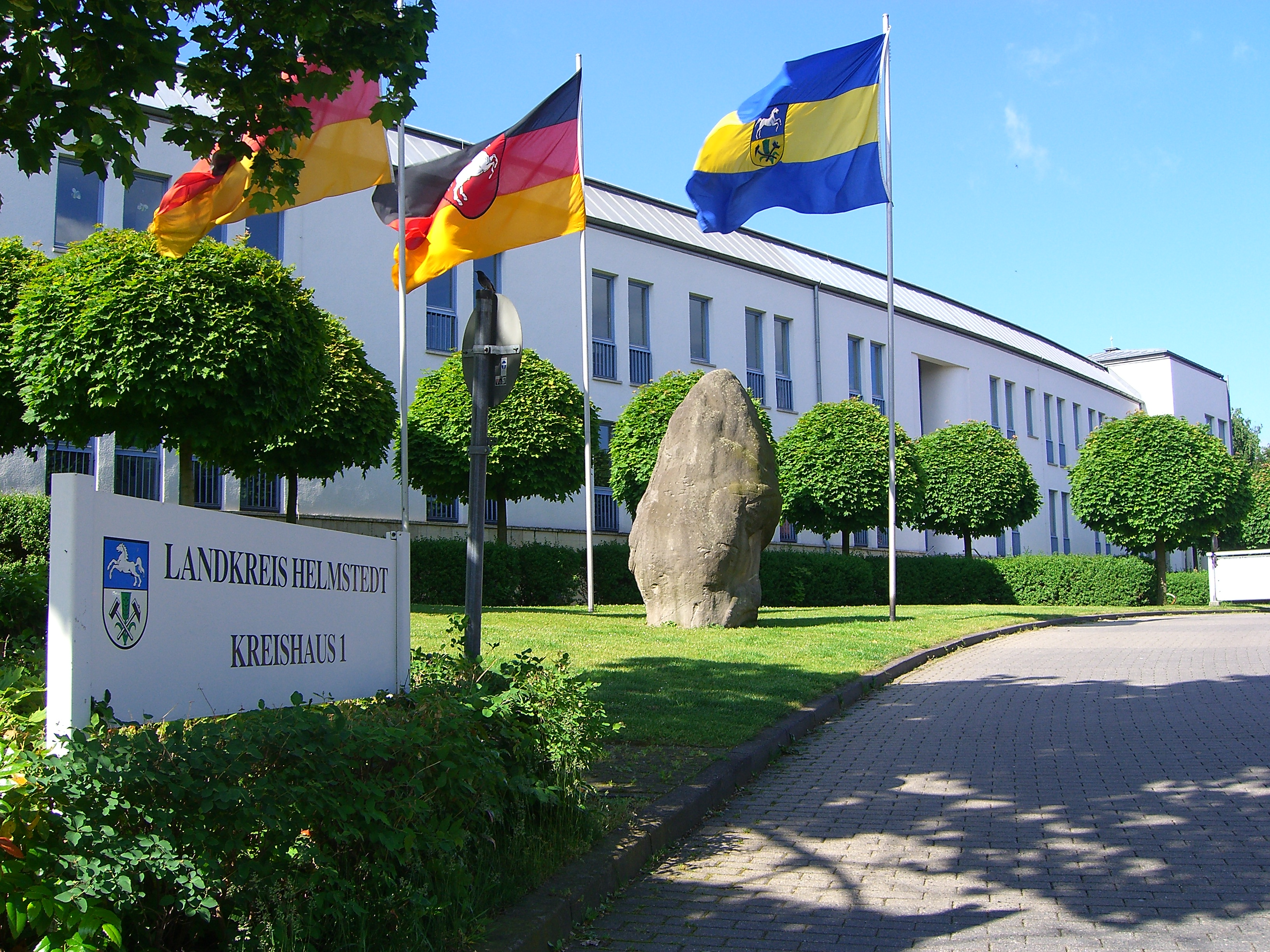 building of the district administration in Helmstedt.